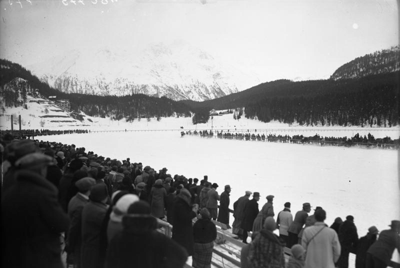 Skijöring demonstration at the 1928 Winter Olympics on frozen Lake St. Moritz Rumantsch: Lej da San Murezzan